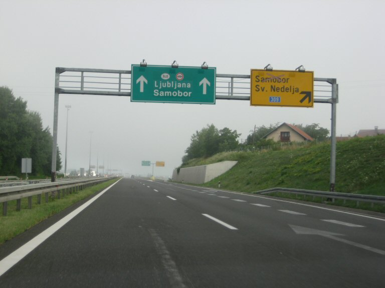 A3 highway, looking west toward the Slovenian border